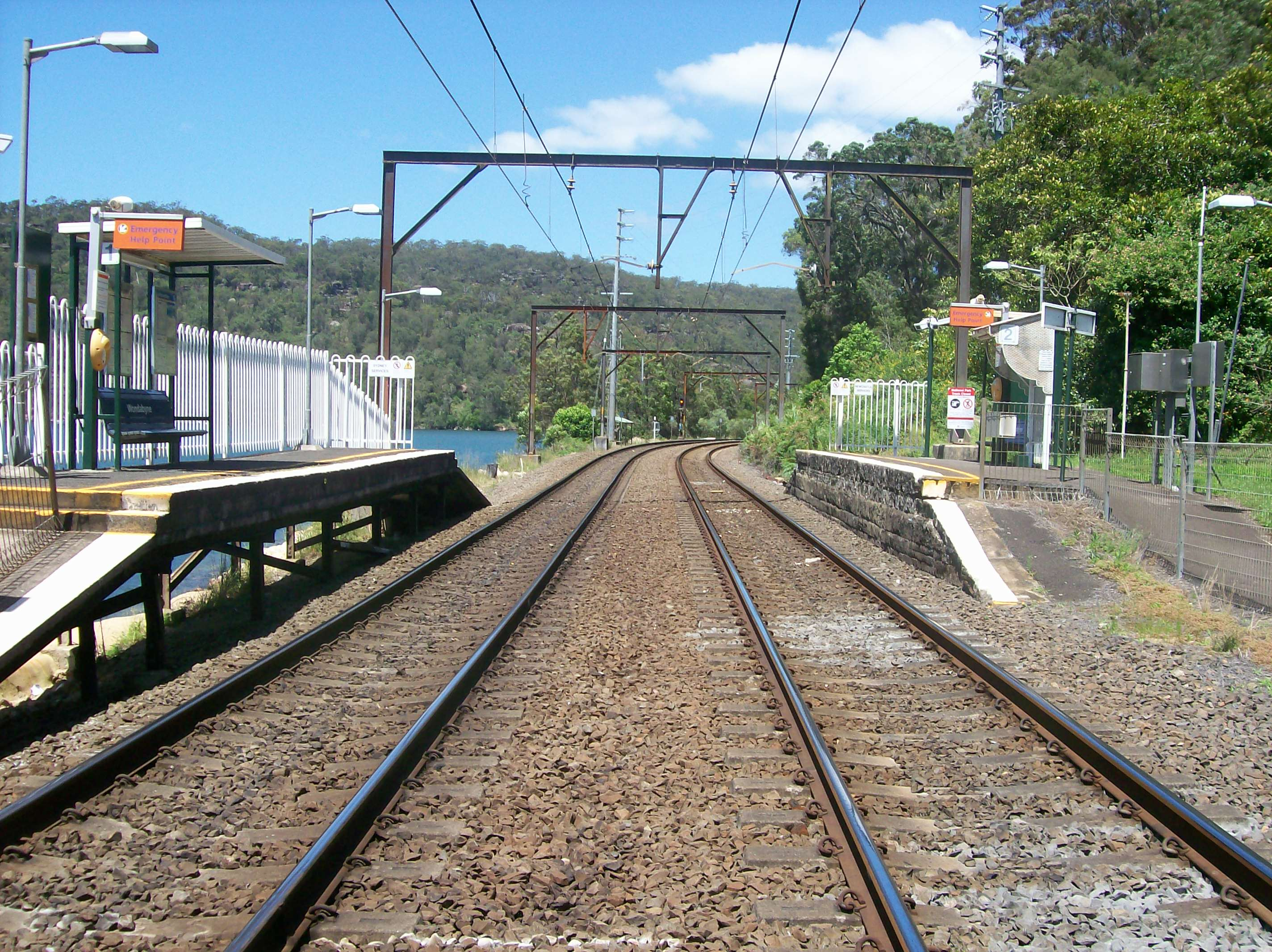 Wondabyne railway station platforms